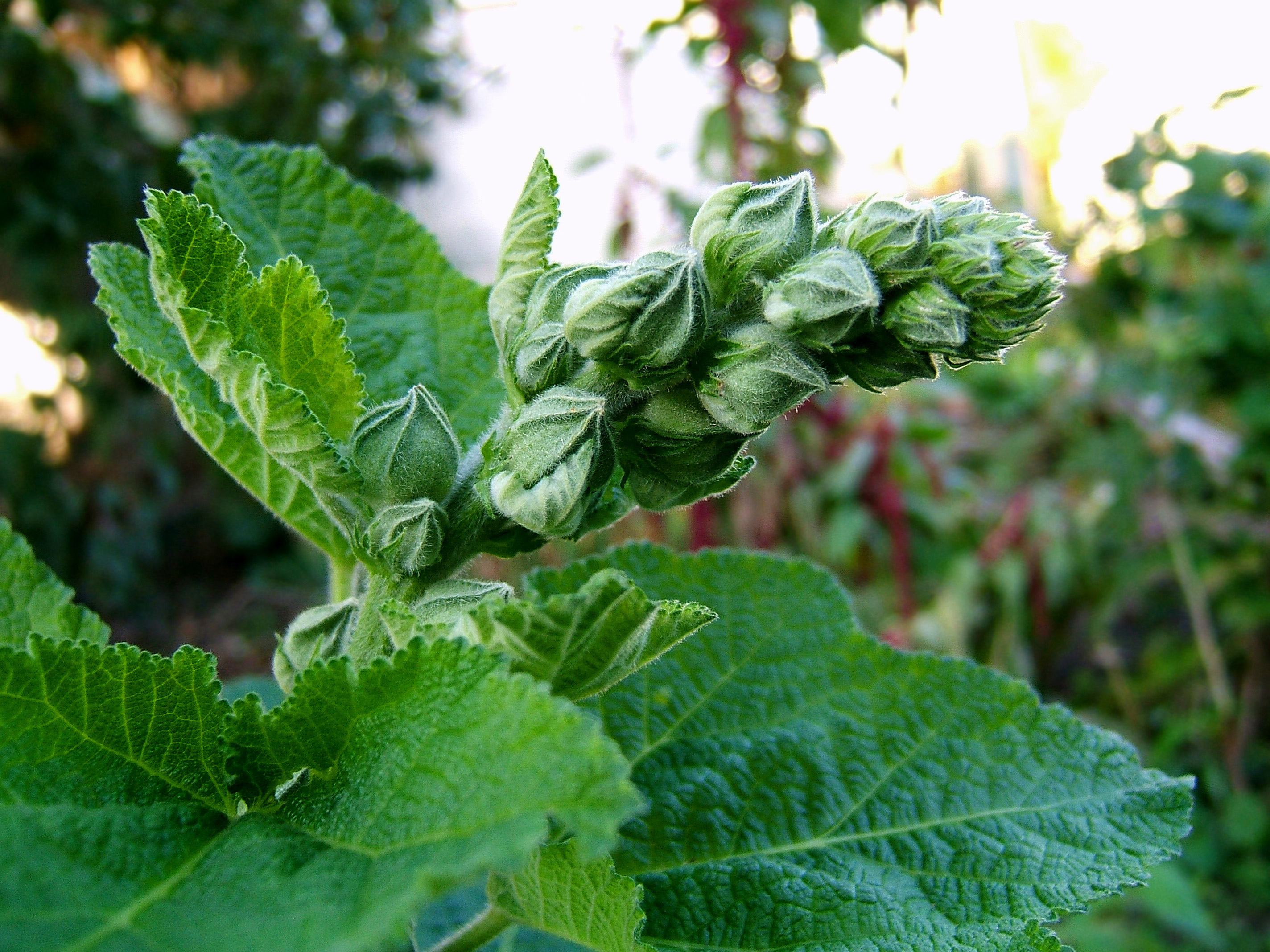 Common Hollyhock